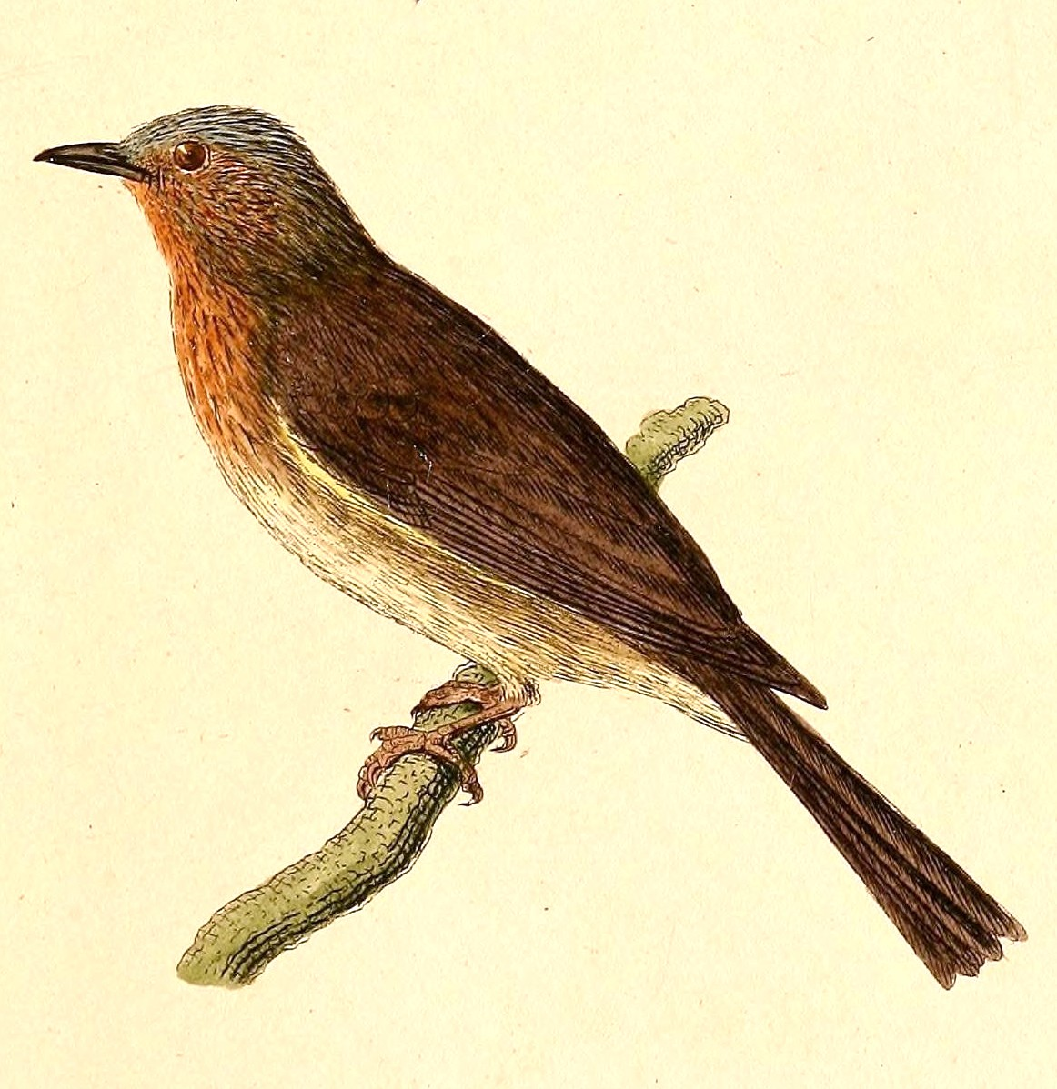 « Galgulus philippinensis » = Hypsipetes philippinus (Philippine Bulbul)